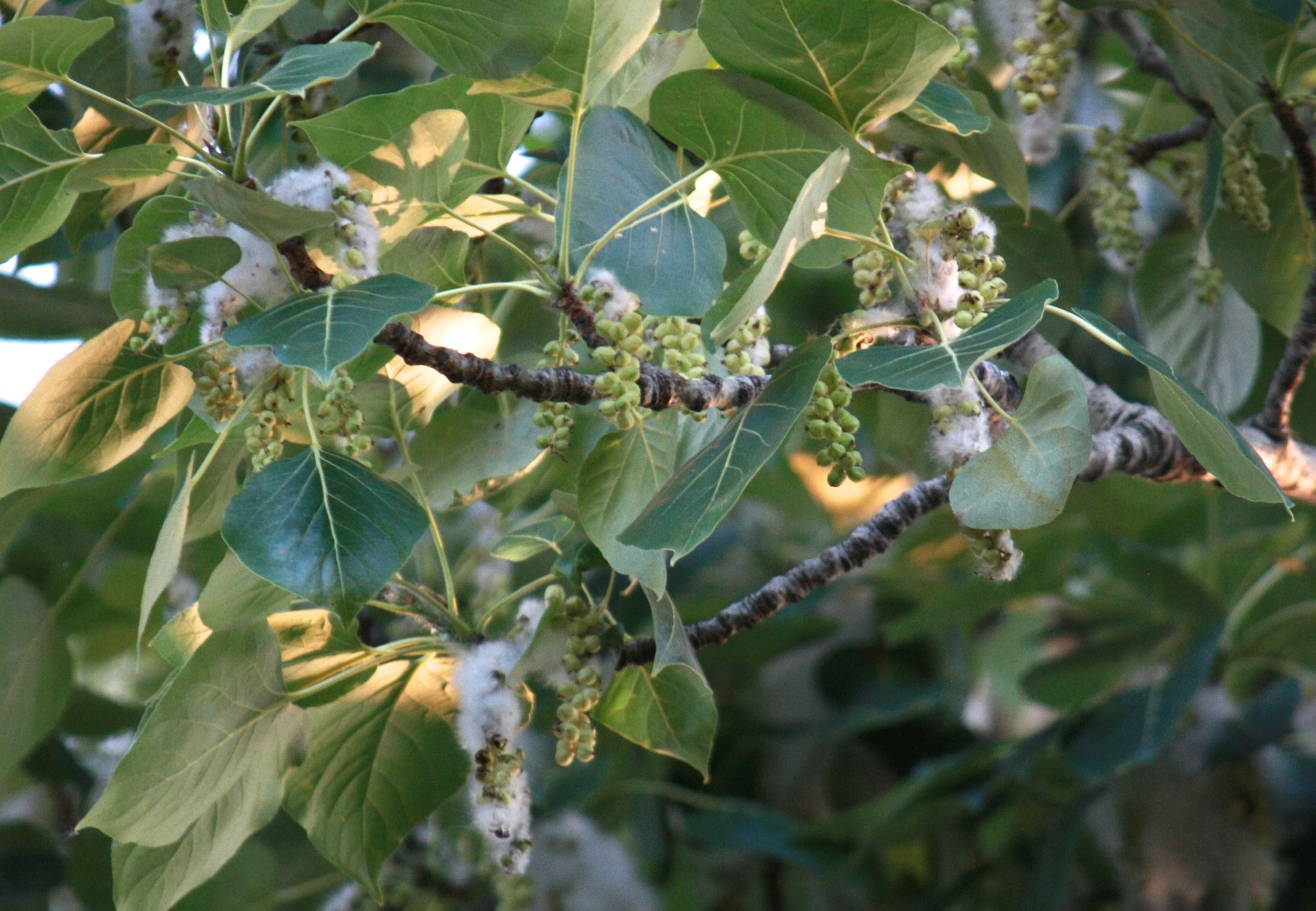 It's possibly of Populus Trichocarpa. I have referred to articles related to Cottonwood on Wikipedia and used elimination technique for criterion "Leaf Pattern" to conclude that it's Populus Trichocarpa. Also, the article on wikipedia about this species specifies that it exists in Northern Idaho and blossoms in July. Today is July 1, 2012.